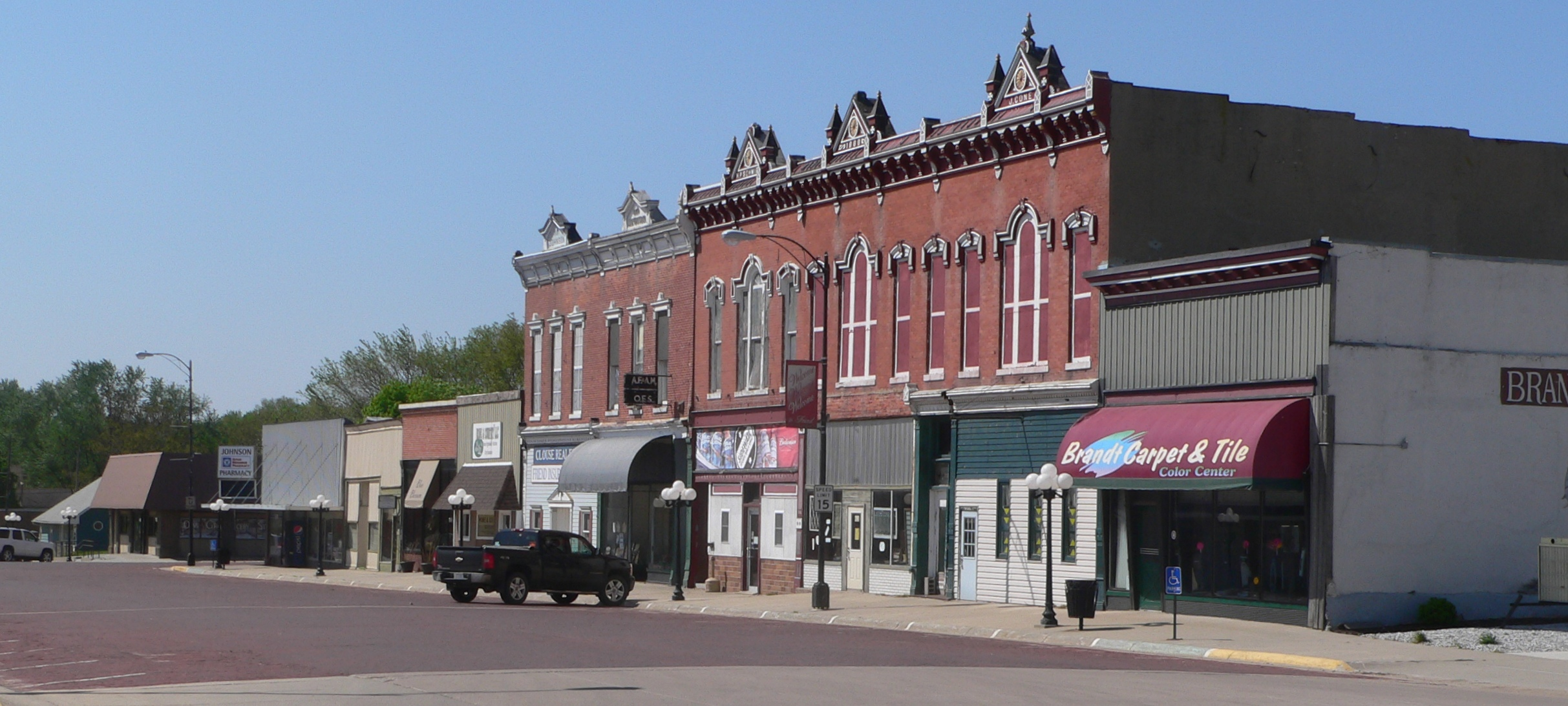 Downtown Friend, Nebraska.